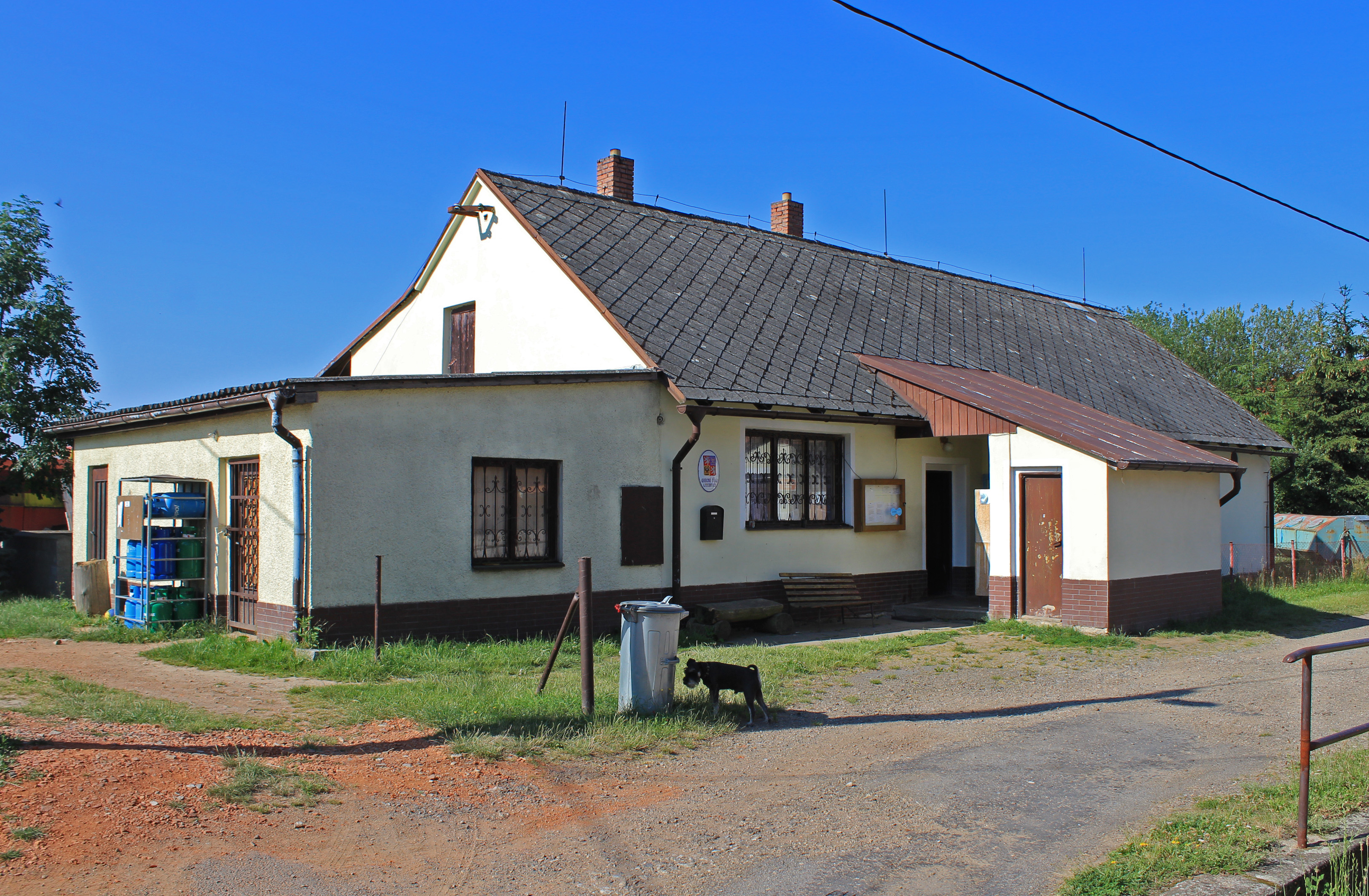 Municipal office in Litichovice, Czech Republic.